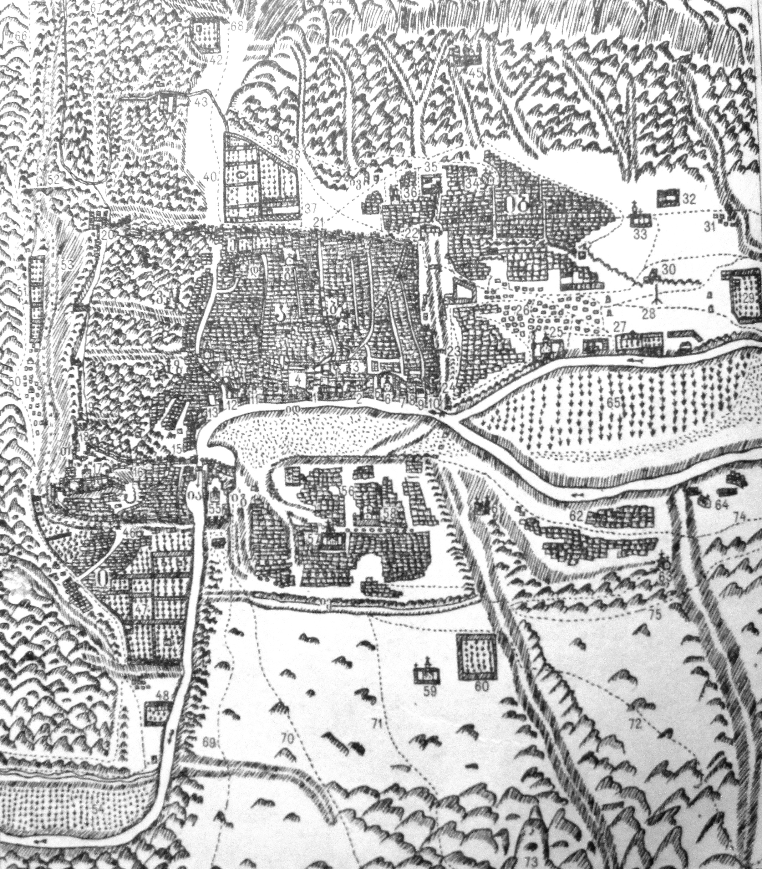 Map of Tbilisi inserted in the atlas of Georgia by Prince Vakhushti, 1735